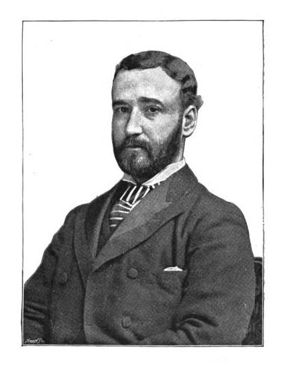 John Davidson (11 April 1857 – 23 March 1909) was a Scottish poet and playwright.